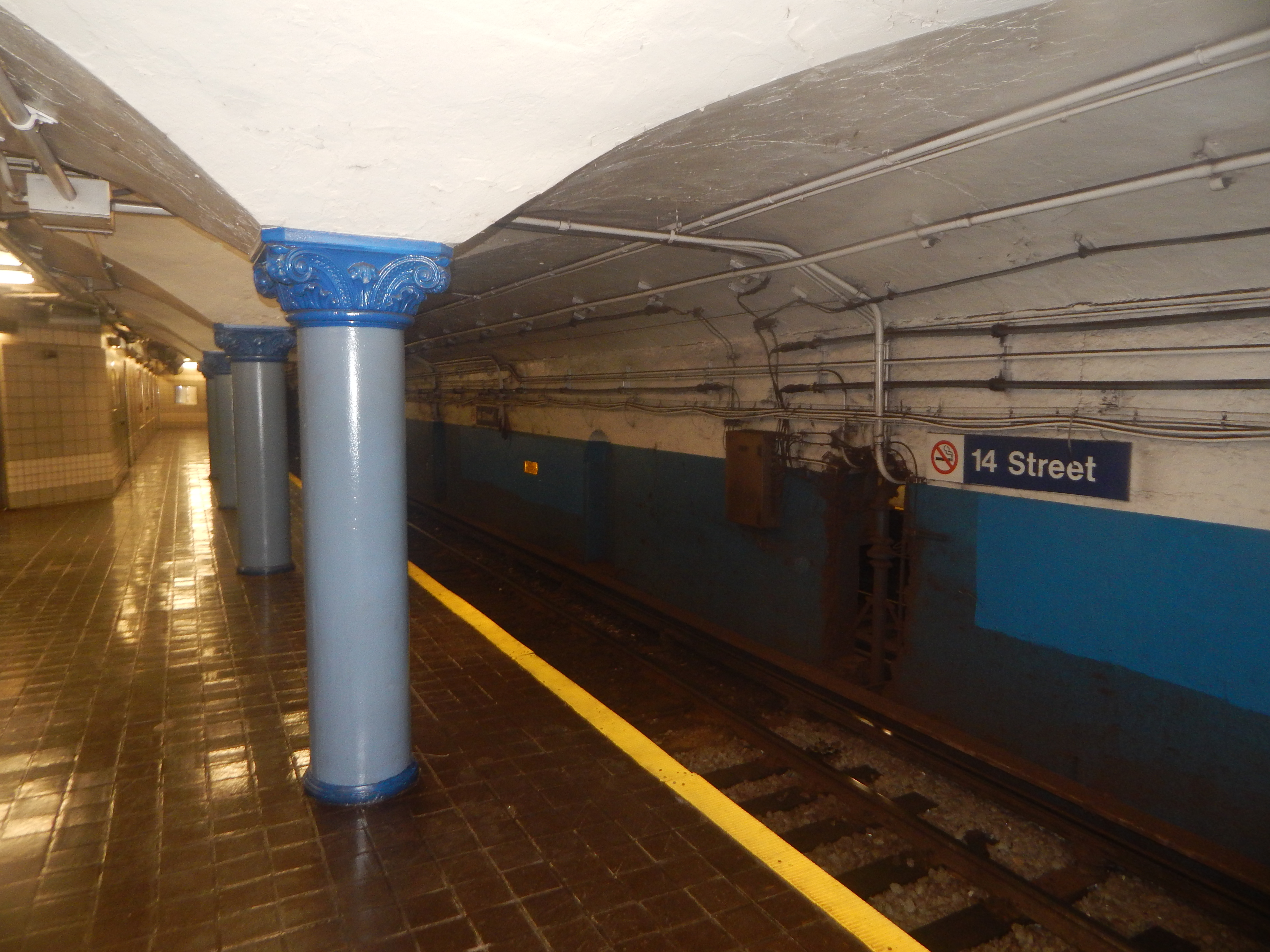 The 14th Street PATH station in April 2015.